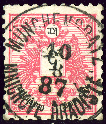 Austrian KK 5 kreuzer stamp, bilingual cancelled at MÜNCHENGRÄTZ - MNICHOVO HRADISTE (Bohemia)